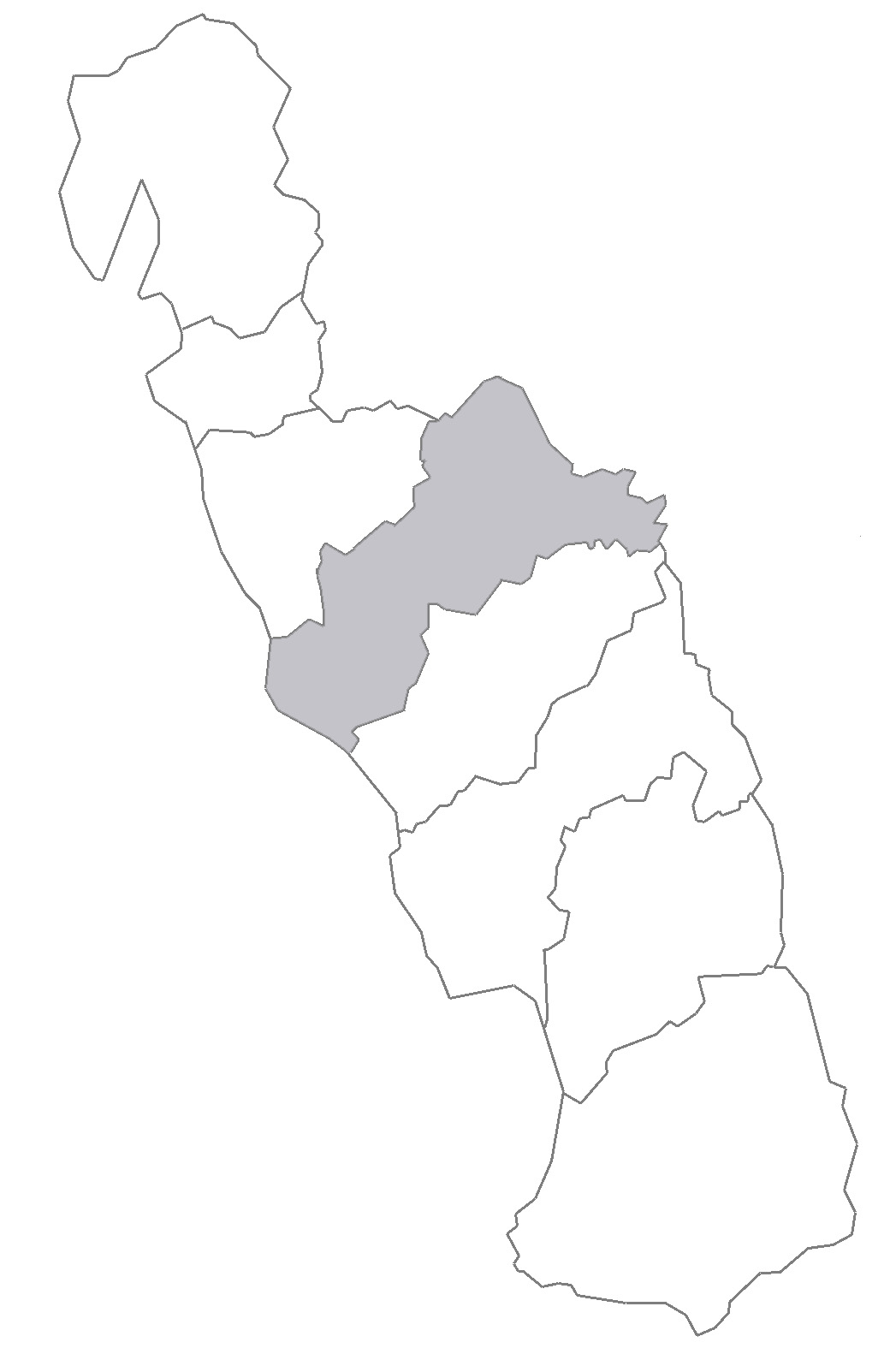 Map describing the location of Faurås Hundred in the province of Halland , Sweden.